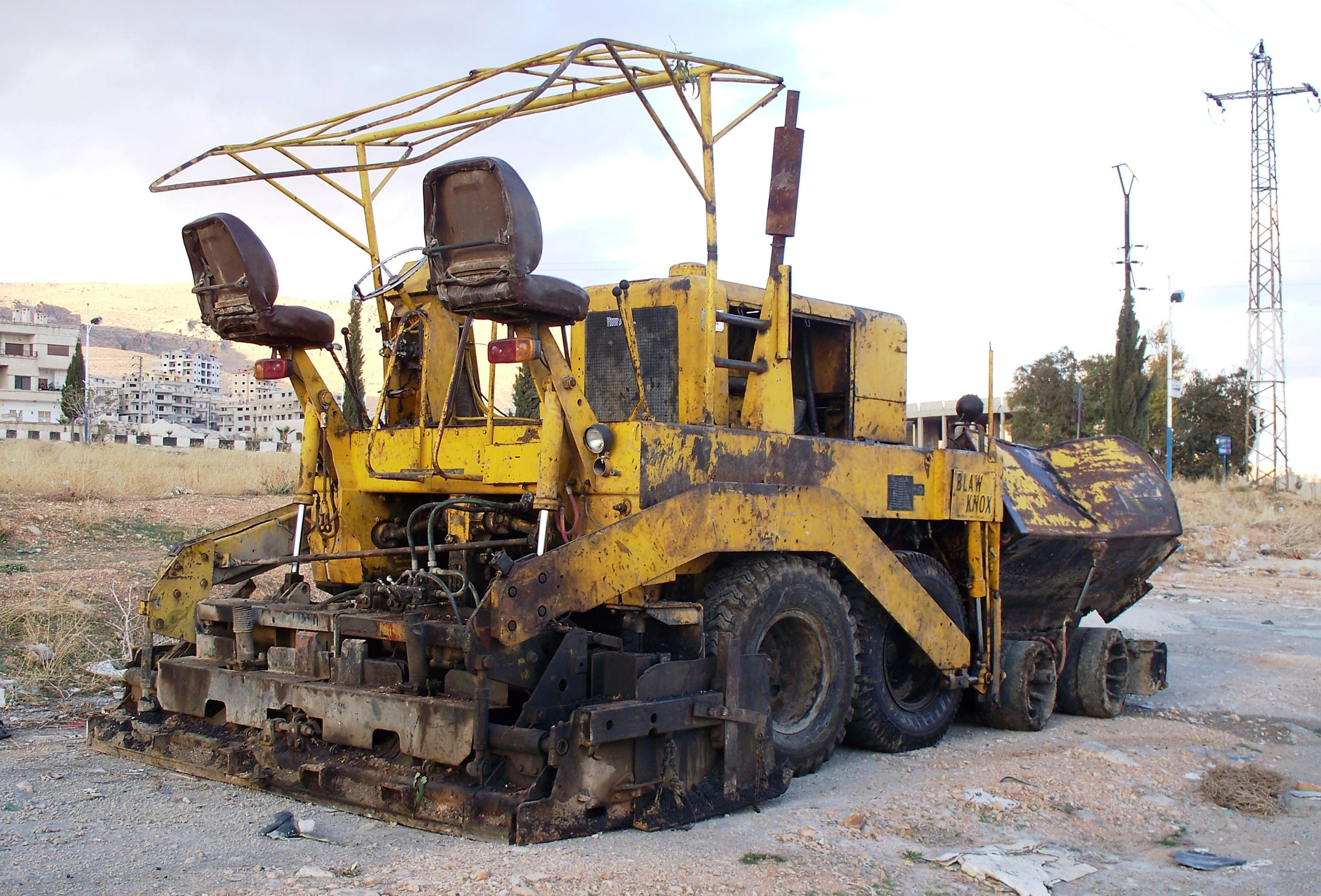 A Blaw Knox paver in Syria.